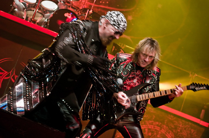 Rob Halford and Glenn Tipton (Judas Priest) during priest feast, palasharp, milano